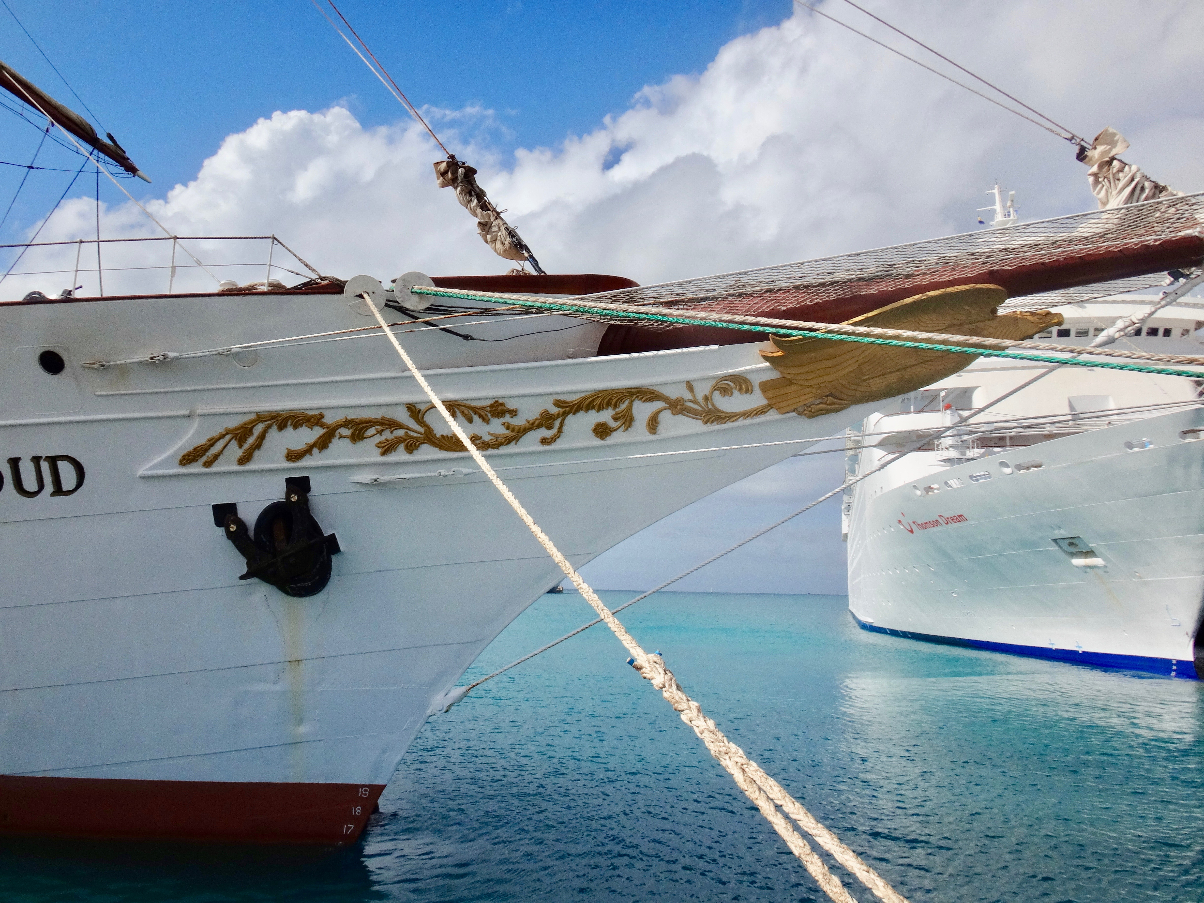 Sea Cloud gold eagle figurehead